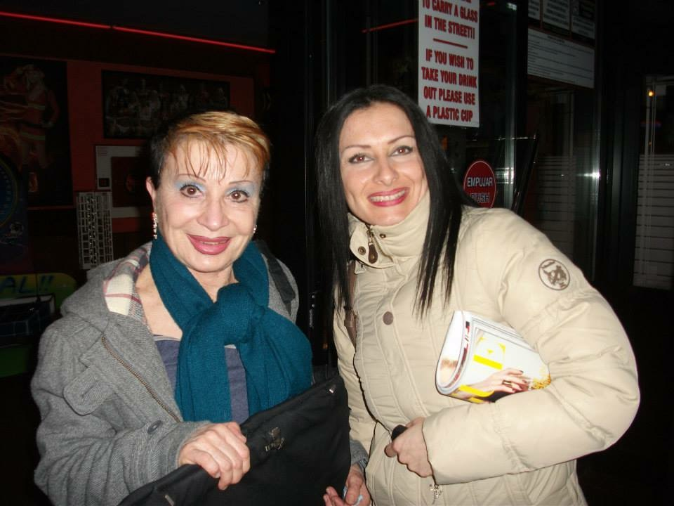 Vicky Leyton, aka Sticky Vicky, and Maria, her daughter